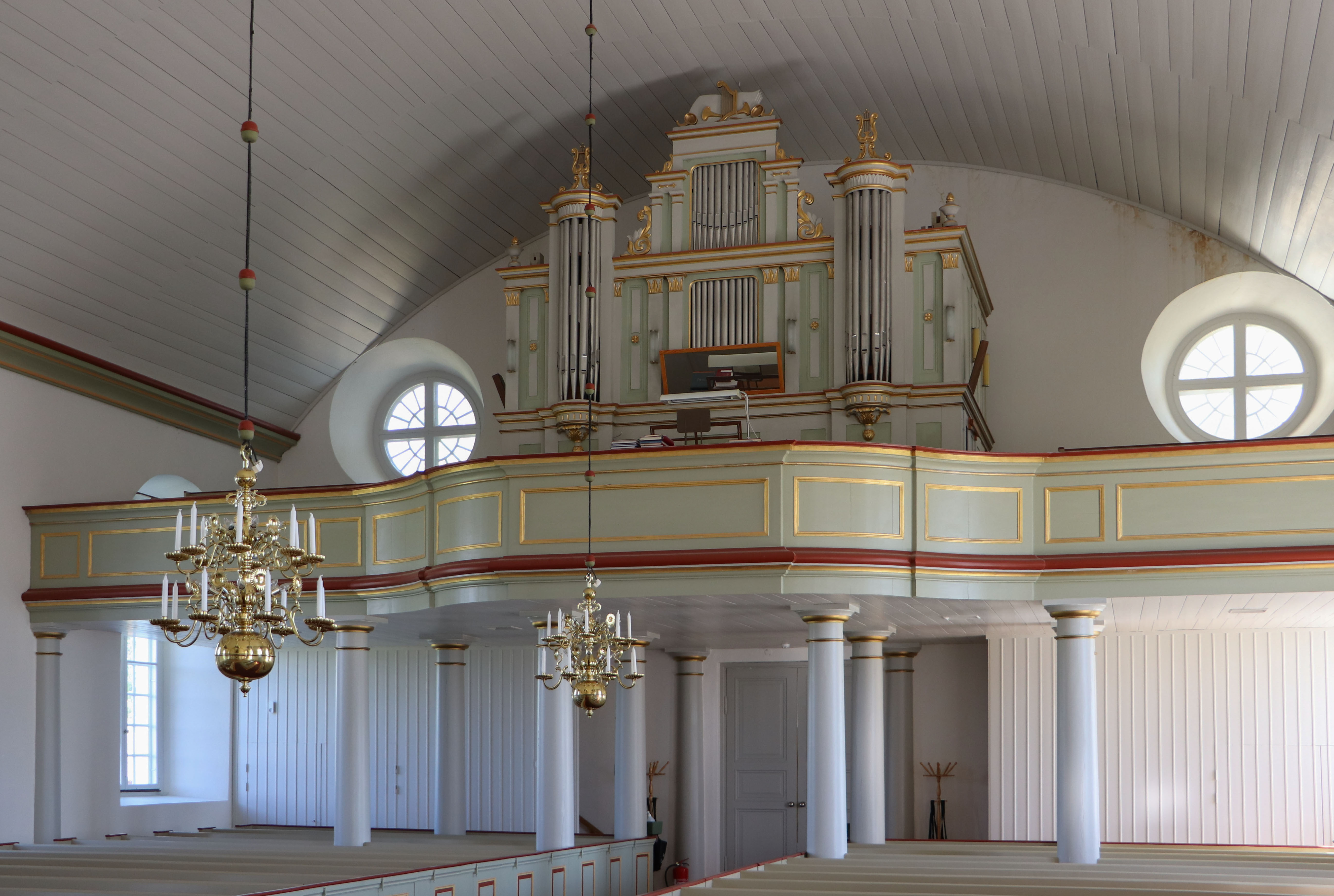 Sjösås new church. The organ